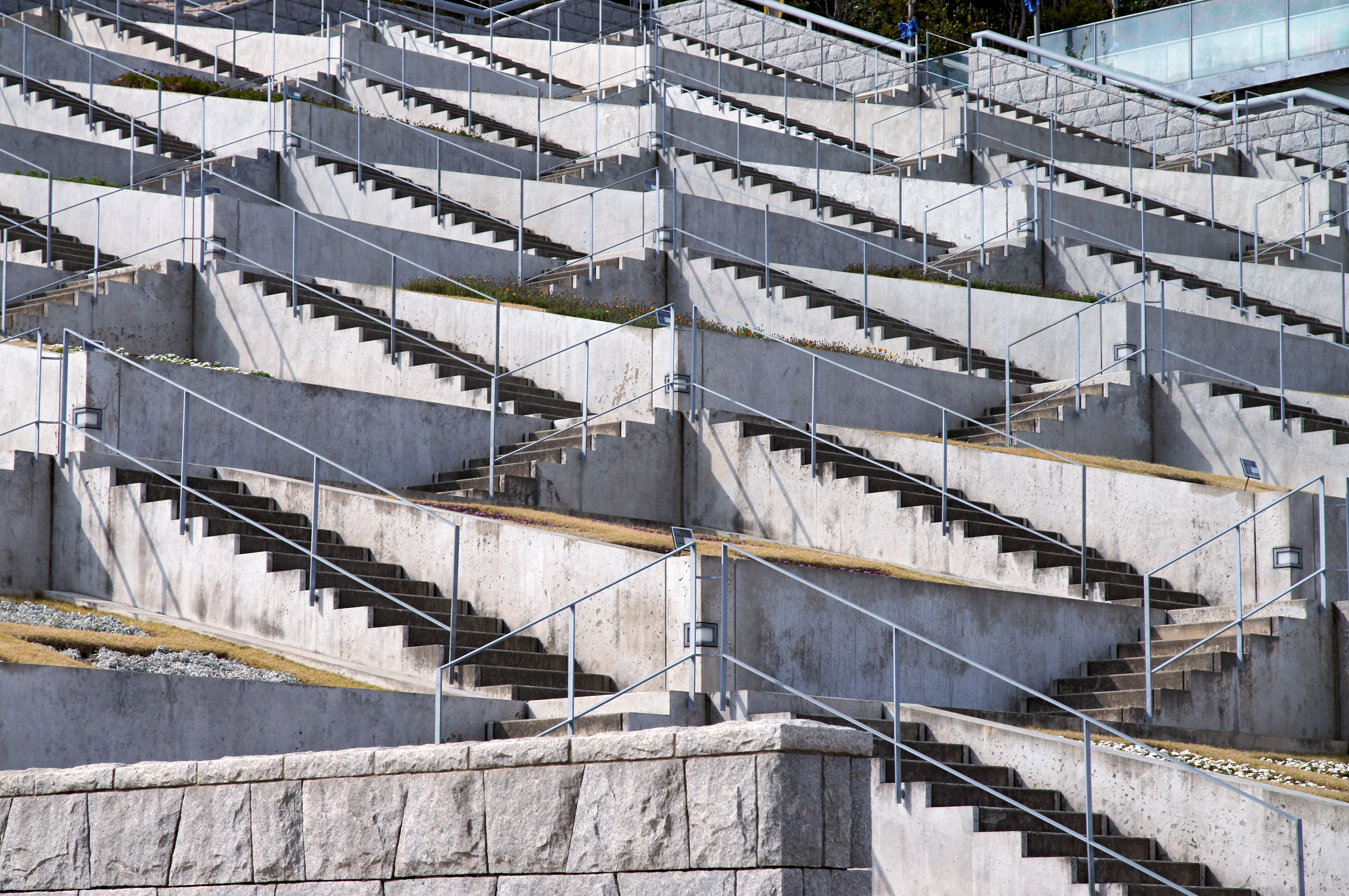 Hyakudanen of Awaji Yumebutai in Awaji, Hyogo prefecture, Japan